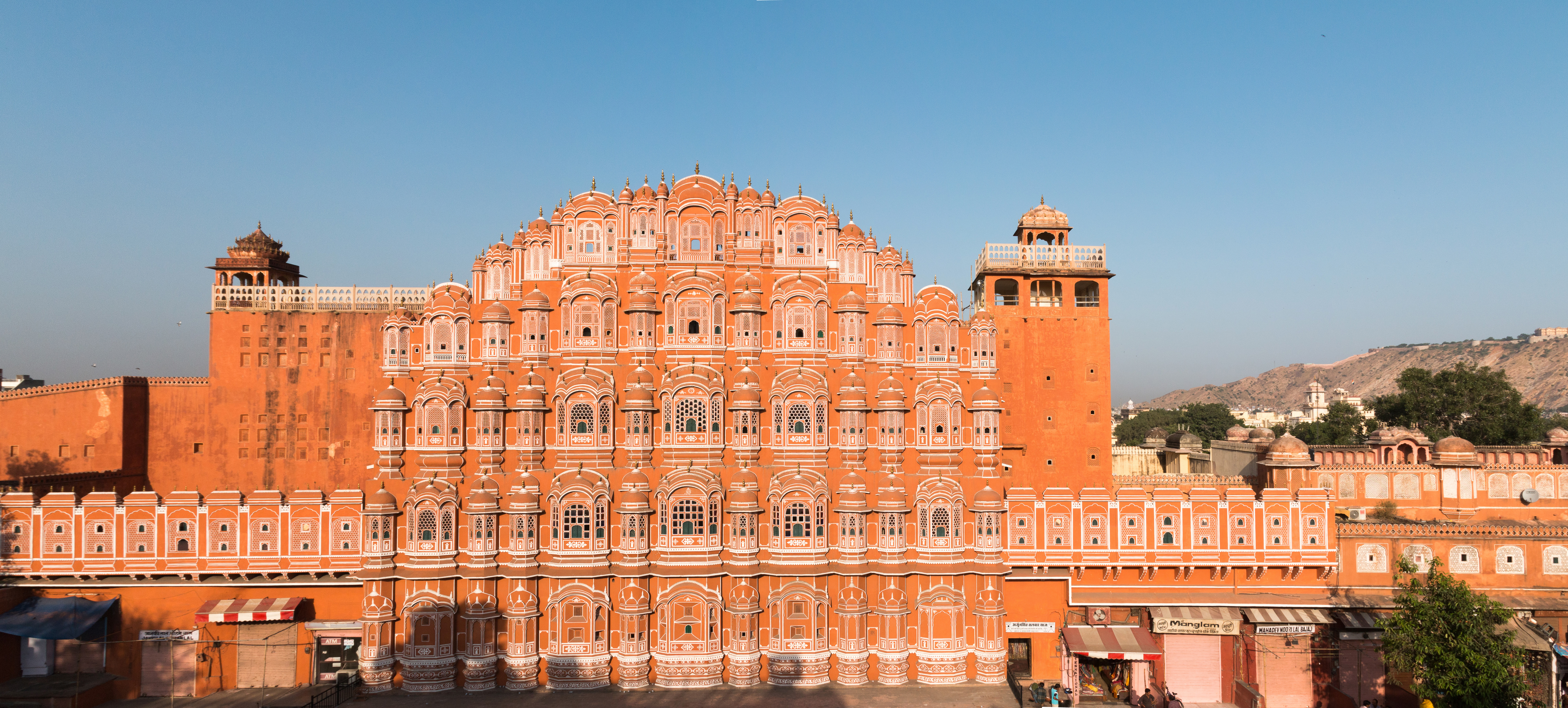 Panoramic view of the Hawa Mahal.